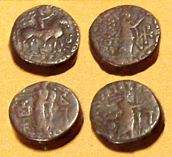 Reliquary coins